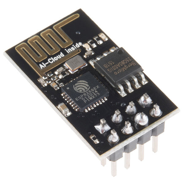 ESP-01 module, manufactured by Ai-Thinker